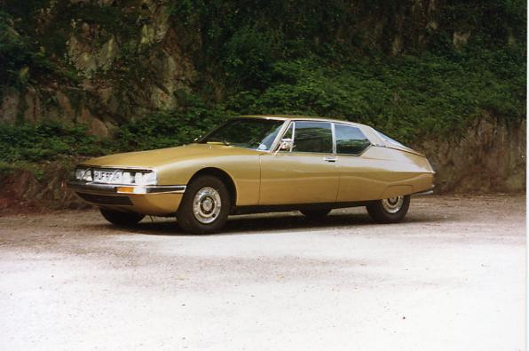 Citroen SM, large version Photo by Hotlorp, this version offered under GNU FDL